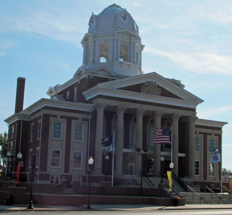 The Muhlenberg County Courthouse in Greenville, Kentucky. It is listed on the National Register of Historic Places